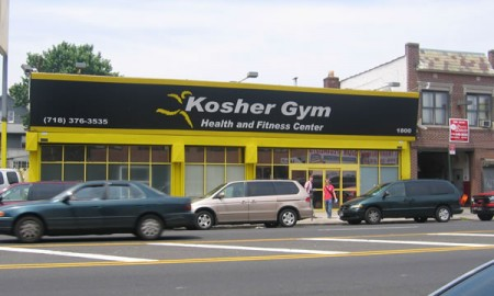 Men's building of Kosher Gym at 1800 Coney Island ave after renovation and new branding